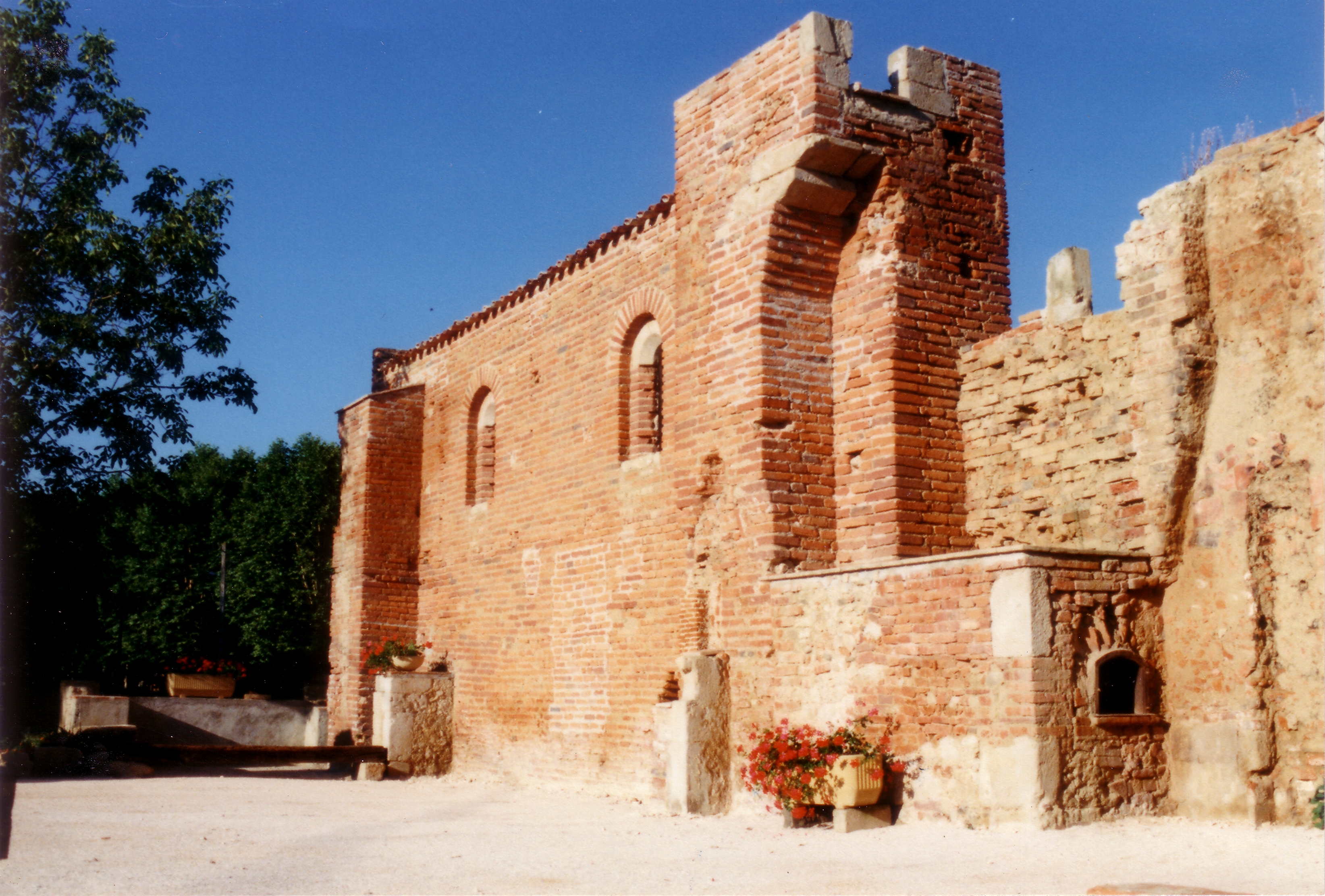 The Convent of Saint-Laurent sur Save (France) Founded in 1151, the Priory Fontevriste of Saint-Laurent has been a focal point in the development of the village. Until the Revolution, it had nearly 100 religious. In 1797, the Priory and the Church are sold to a contractor who destroyed the latter to take advantage of bricks. Next to the Convent, which will serve as a dwelling house, the wall west of the Church will be saved. In July 1977, the flood waters of the river (the Save) ravaging the region and flood the Convent uninhabited falling into ruin. A few years later, in 1989, the municipality and an association of villagers and motivated volunteers (Saint Laurent Heritage) decided to undertake renovations and finally to update this treasure of the past. The work is completed in 1991, leaving room for remains of another age, a pleasant, quiet and flowers, where boulistes afternoon summer gather for a portion of petanque.